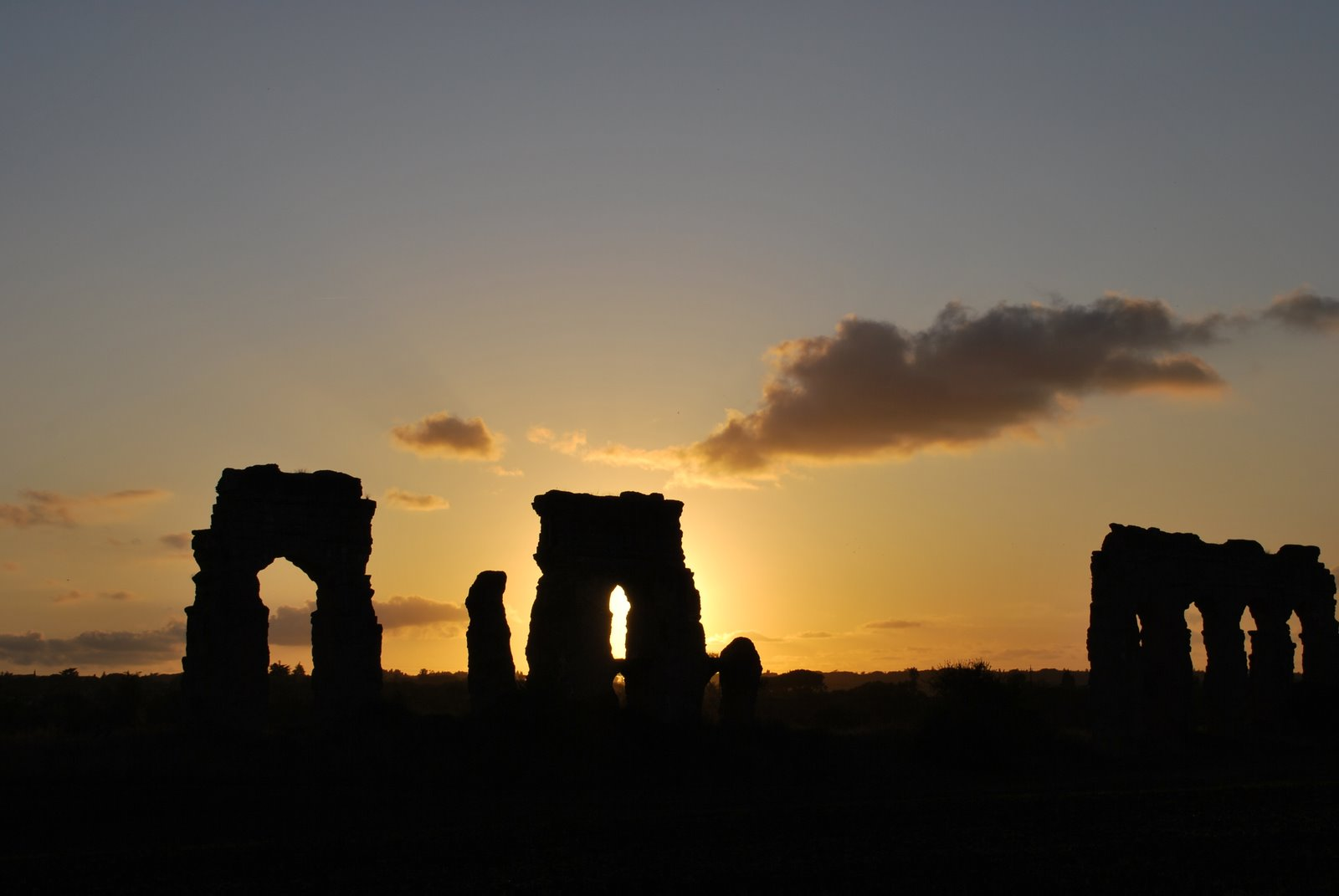 Parco degli acquedotti - Parco dell'Appia Antica - Roma